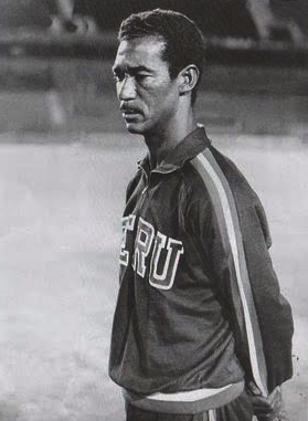 Valdir Pereira, better known as "Didi", in his role as coach of the Peru national football team